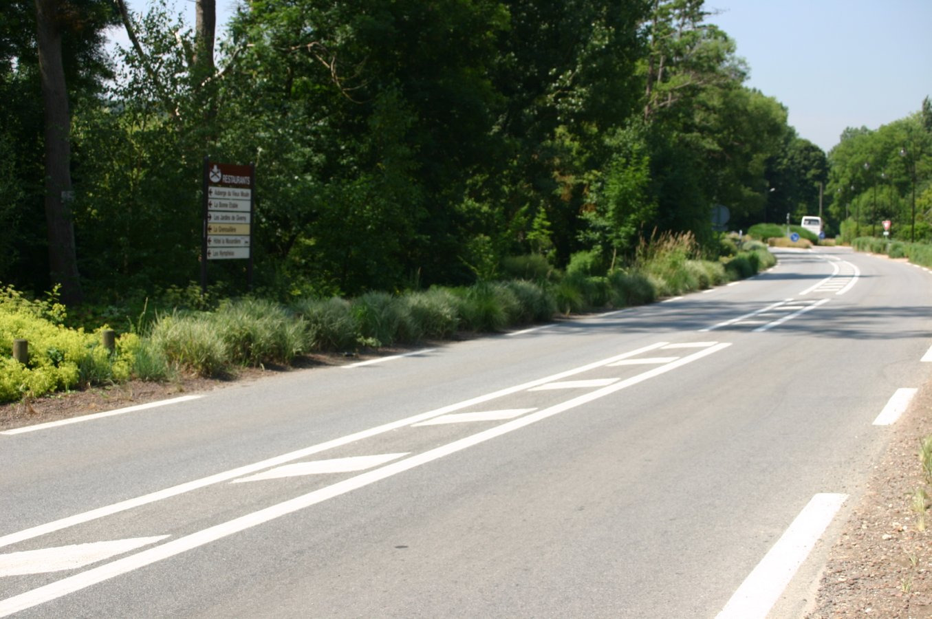 Giverny: The road leading to the Claude Monet museum. Photo: Sten Porse